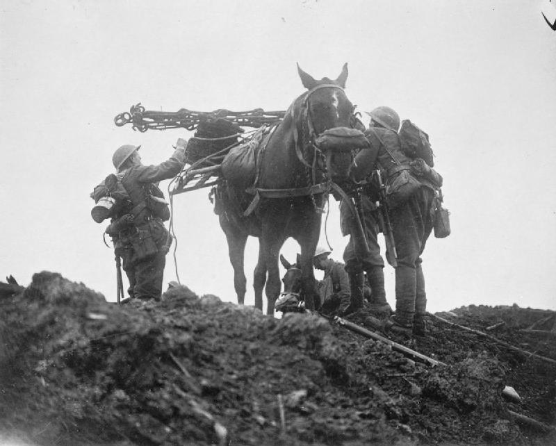 Title: THE THIRD BATTLE OF YPRES (PASSCHENDAELE) 31 JULY - 10 NOVEMBER 1917 Description: Battle of Pilckem Ridge 31 July - 2 August: A pack horse with a gas mask being loaded up with wiring staples and other equipment near Pilckem.